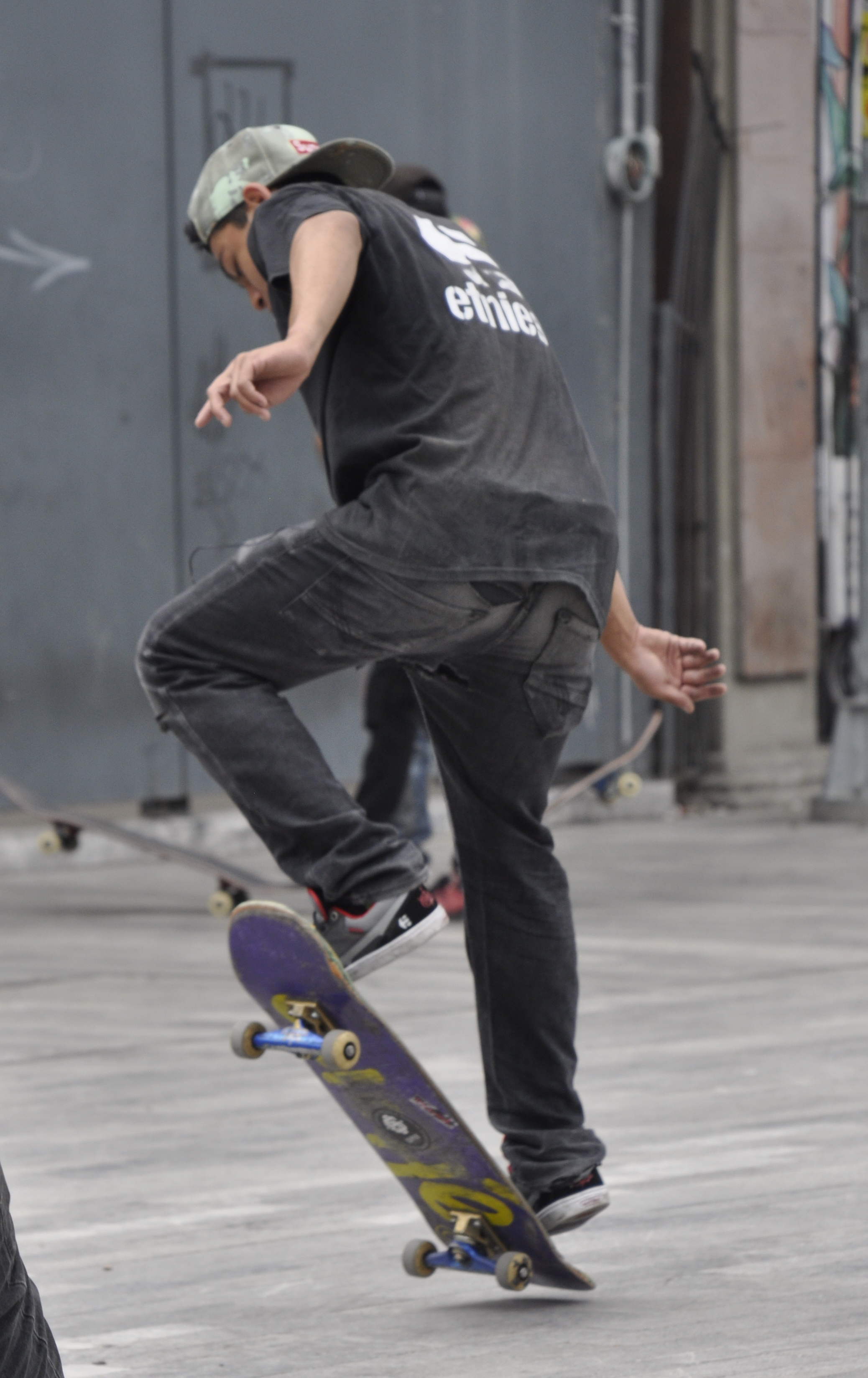 Skateboarding at Calle Dr Mora, just west of Alameda Central in Mexico City.